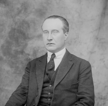 Photo portrait of Dr Crinon de la revue Sciences et Voyages [sic], Paris, Agence Rol, 1919.